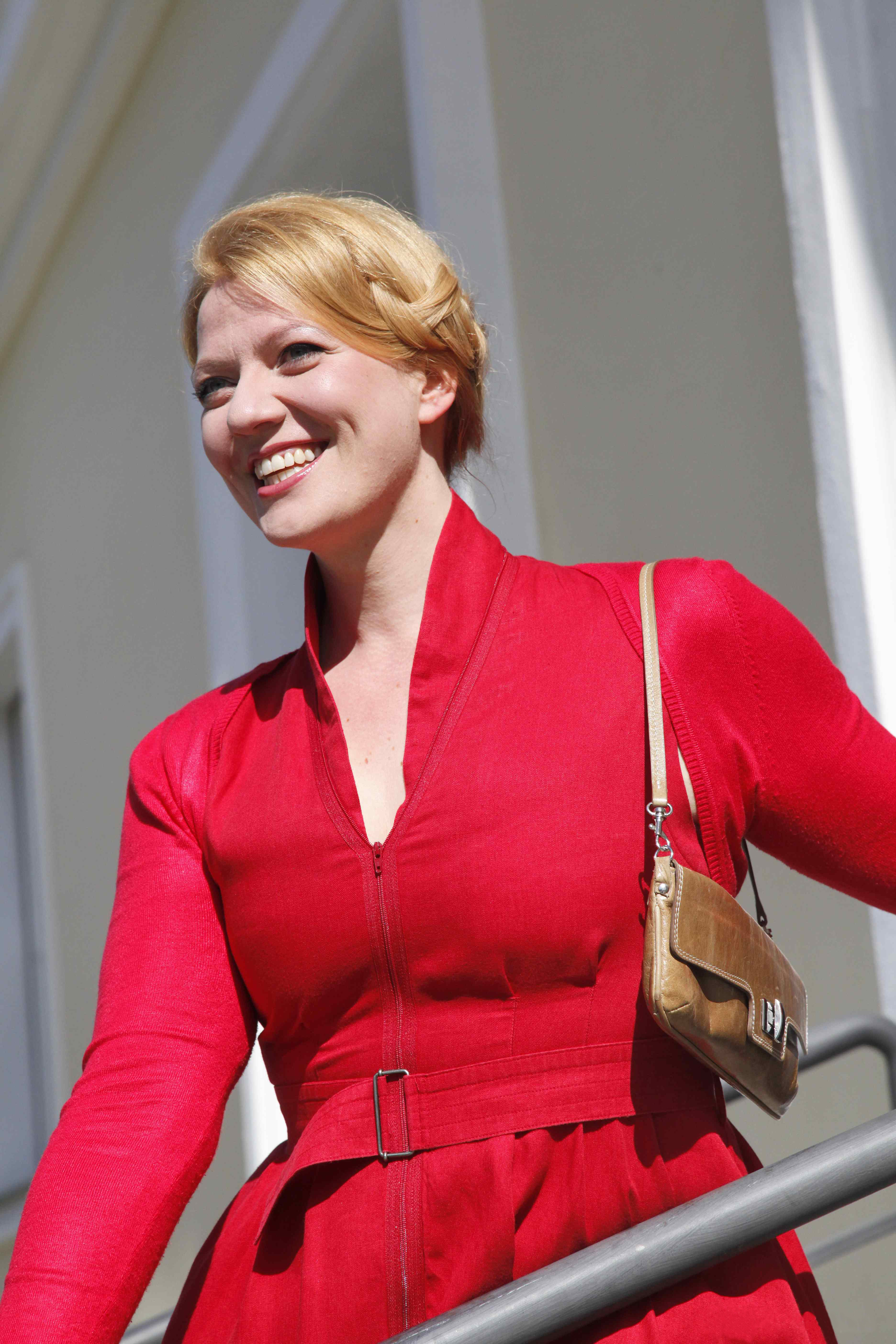 Estonian Soprano Aile Asszonyi (© Priit Palomets 2012)